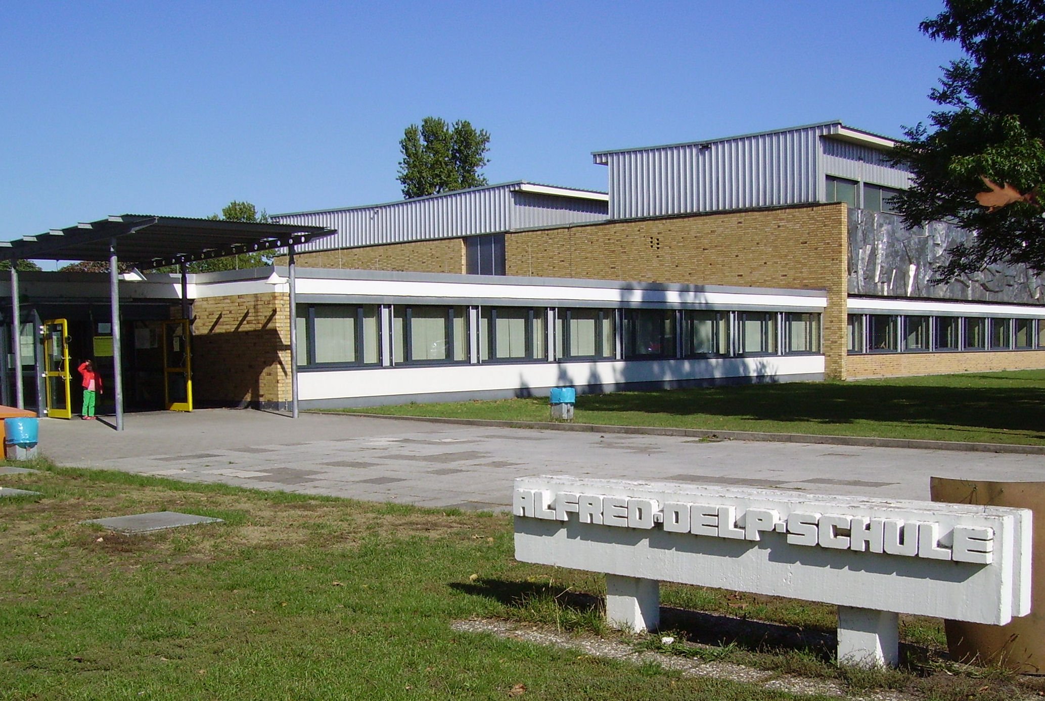 primary school of Maudach, Ludwigshafen in Rheinland-Pfalz (Germany)